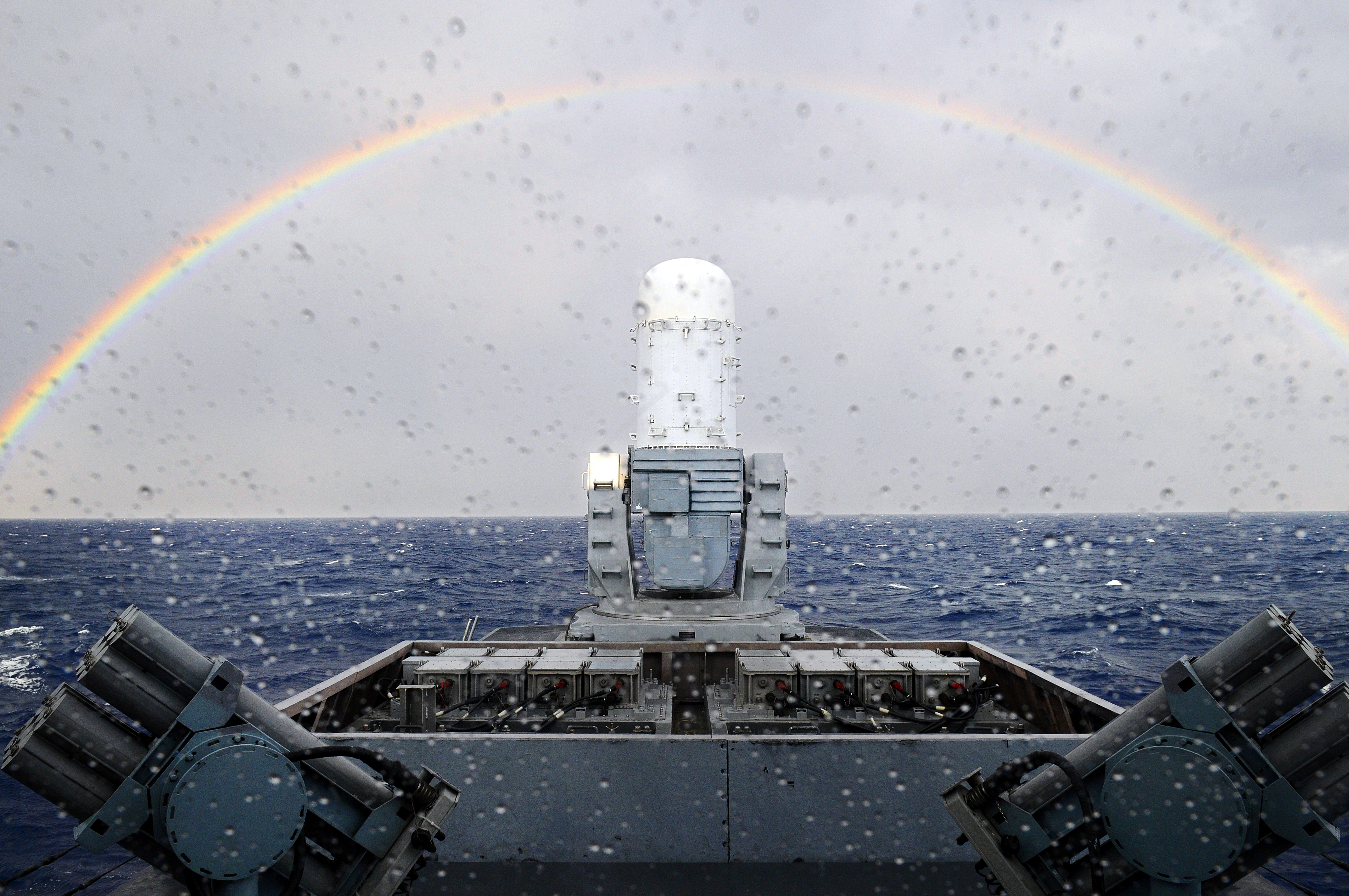 The view from an Israeli Navy missile ship during an exercise in the Mediterranean. Pretty impressive, huh? Photo by Cpl. Shay Wagner The Israel Defense Forces Facebook • blog • Twitter